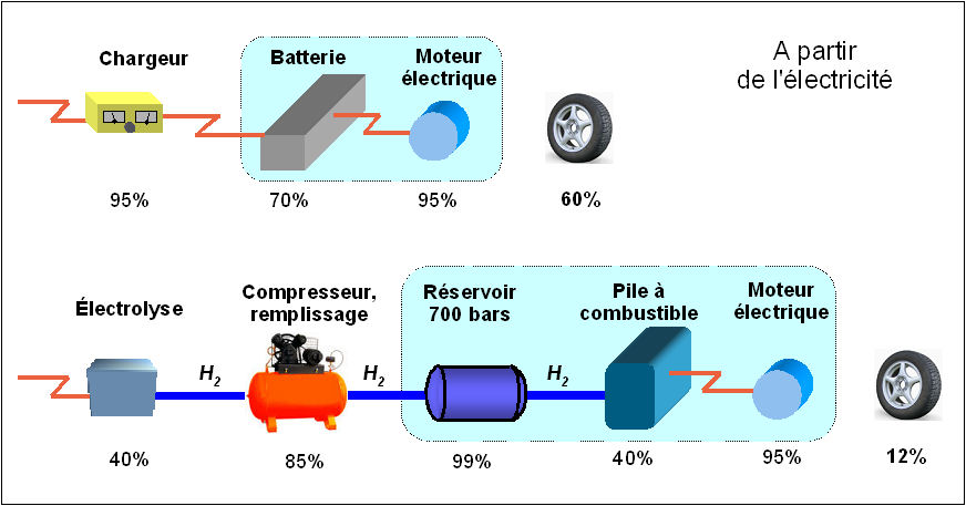 Relative efficiency of electricity for automotive usage with battery storage or through H2 generation.